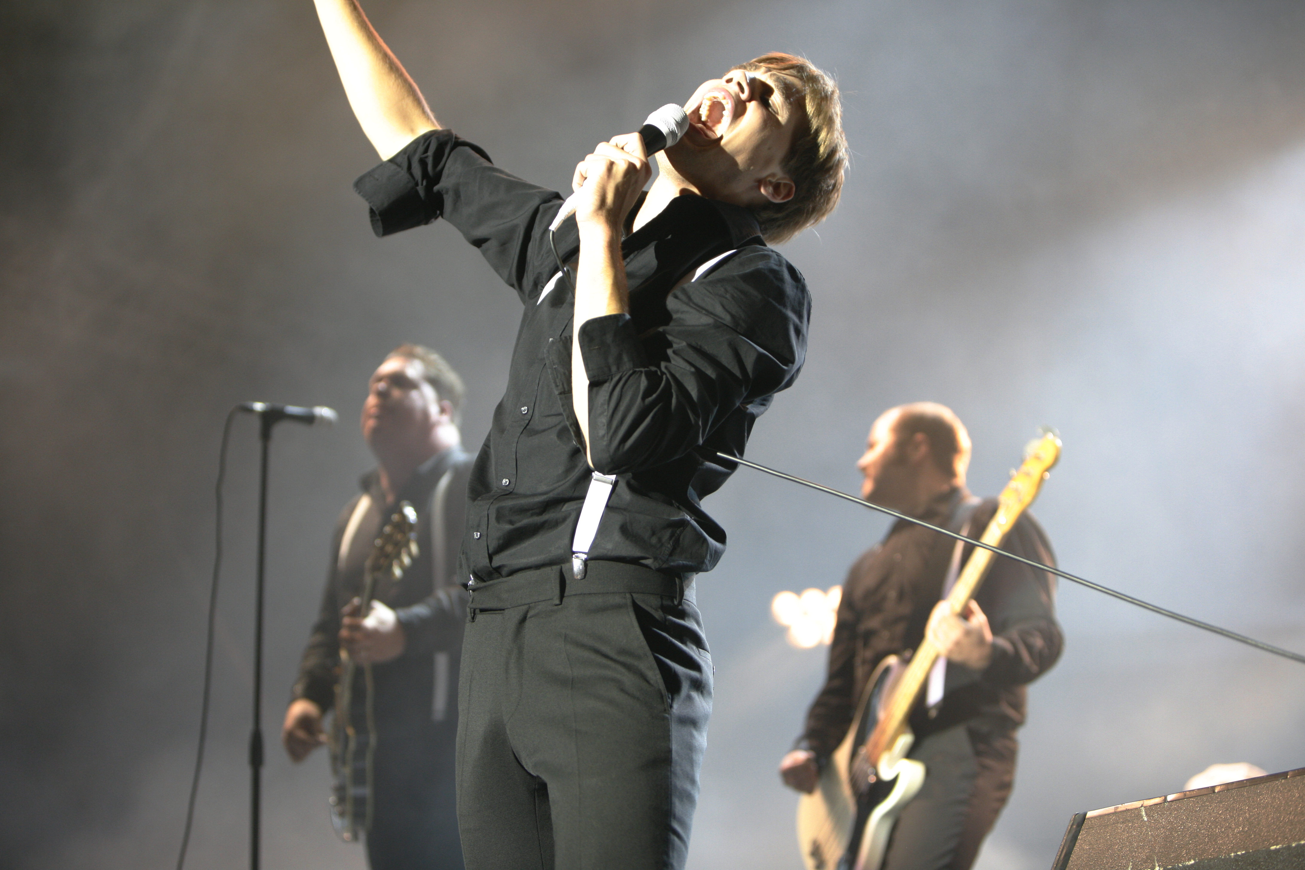 The Hives at the Eurockéennes of 2007